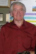 Cropped image of Dennis Skinner